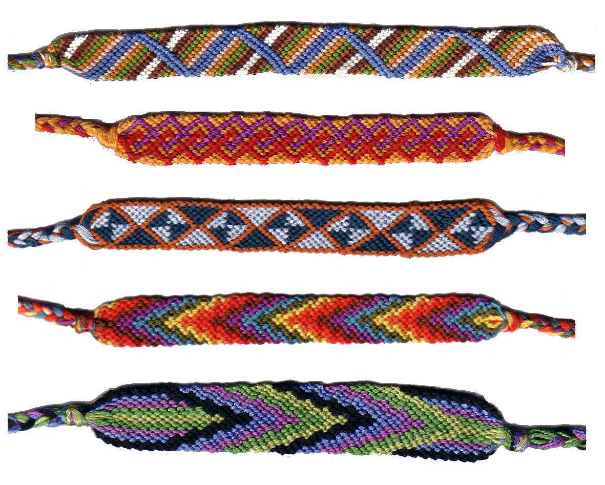 Friendship bracelets - special_forms